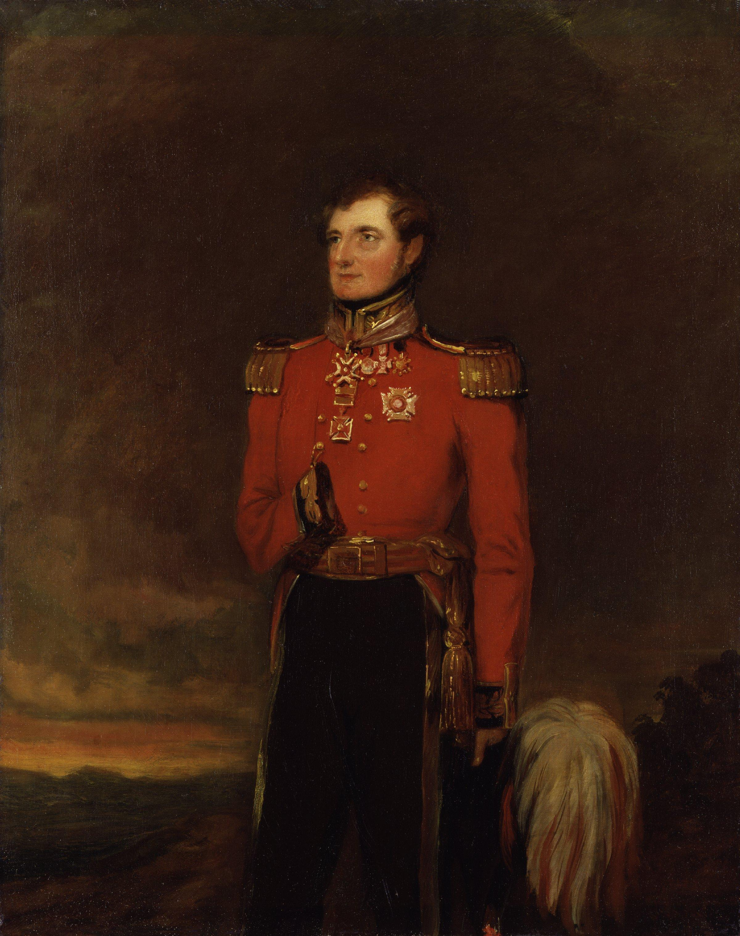 Fitzroy James Henry Somerset, 1st Baron Raglan, by William Salter (died 1875). All images in this batch have been confirmed as author died before 1939 according to the official death date listed by the NPG.